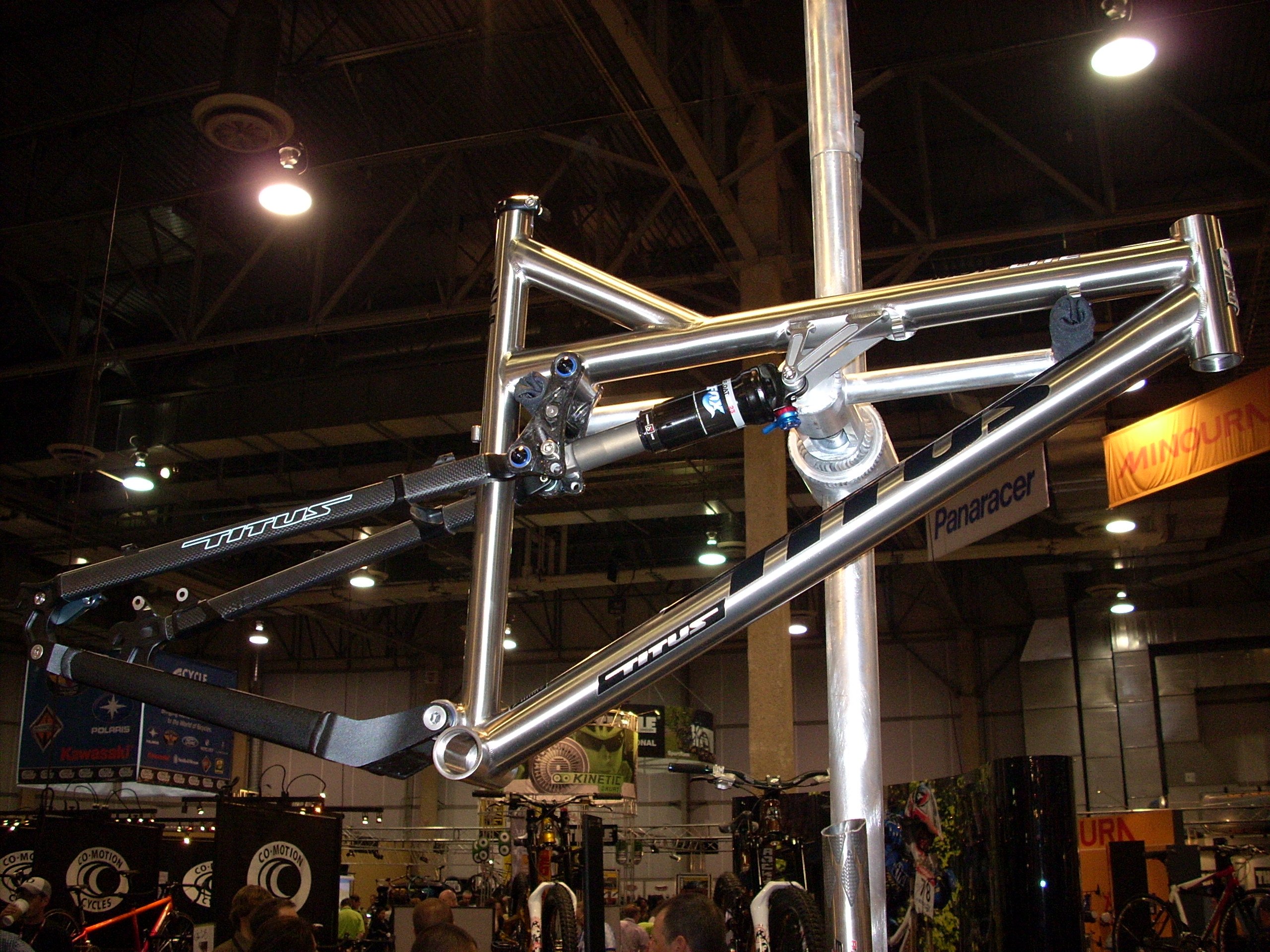 Titus titanium carbon suspension mountainbike frame